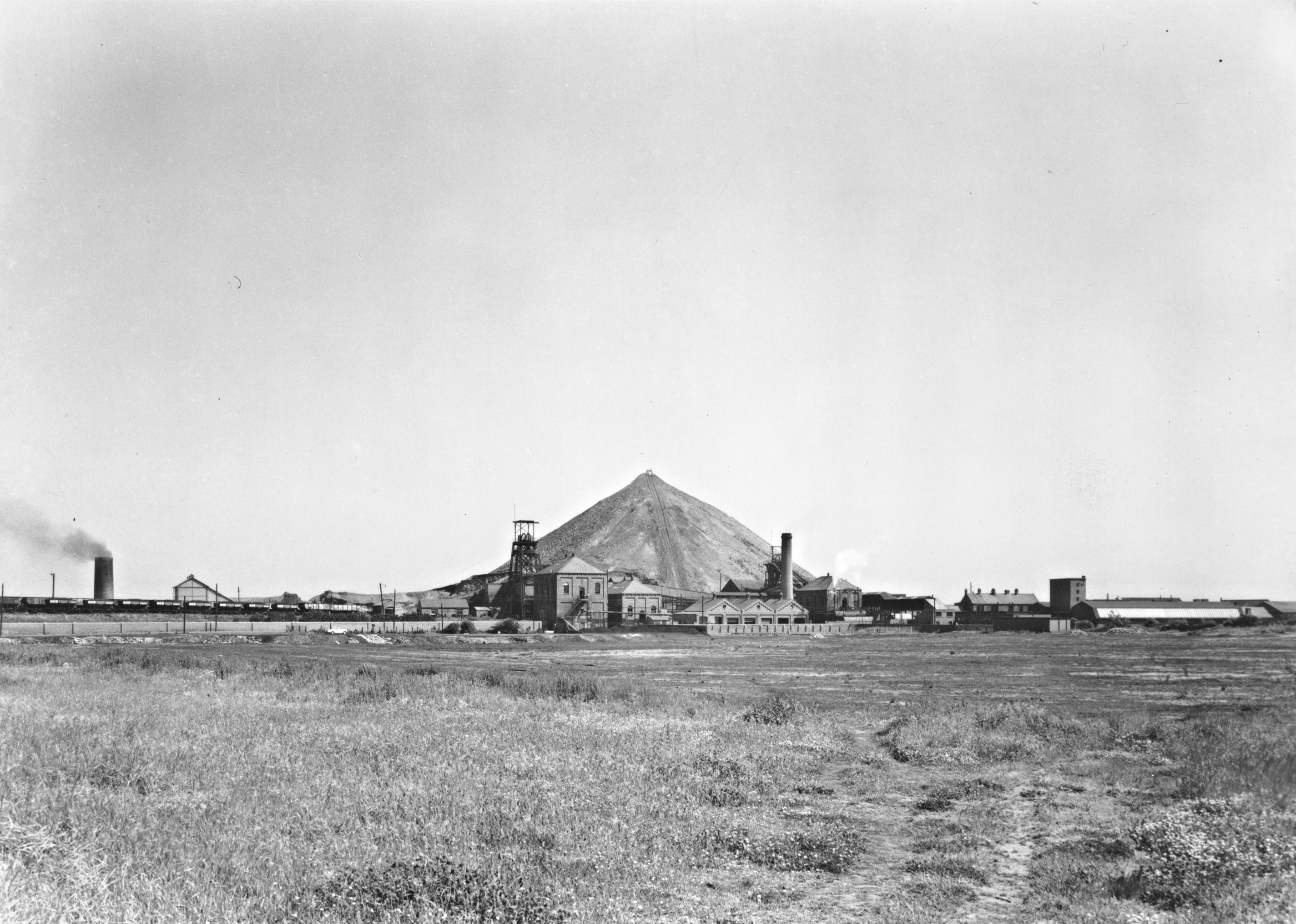 View of Washington 'F' Pit, May 1965 (TWAM ref. 5417/120/5). The pit closed in 1968. A short blog about the removal of the pit heap can be read at 2014 marks the 50th anniversary of the creation of Washington New Town. It was officially established on 24 July 1964 and since then the area has witnessed massive changes. Old pit terraces have been replaced with modern housing, thousands of new jobs have been created, great new shopping and leisure facilities have been built and a derelict industrial landscape has been reclaimed and transformed. To celebrate this anniversary Tyne & Wear Archives has brought together a set of images of Washington as it was 50 years ago. These were commissioned by Washington Development Corporation, which was responsible for planning, designing and building the New Town. The images are an important reminder of Washington's past. They reflect how much of the town has changed beyond recognition. The town will continue to evolve over the next fifty years and we must make sure that the memories continue to be preserved. (Copyright) These images are Crown Copyright. We're happy for you to share these digital images within the spirit of The Commons. Please cite 'Tyne & Wear Archives & Museums' when reusing. Certain restrictions on high quality reproductions and commercial use of the original physical version apply though; if you're unsure please .